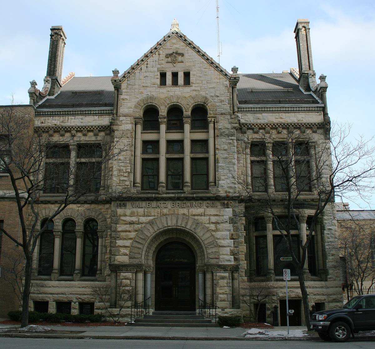 Valentin Blatz Brewing Company Office Building, Milwaukee, Wisconsin. US Registered Historic Place.